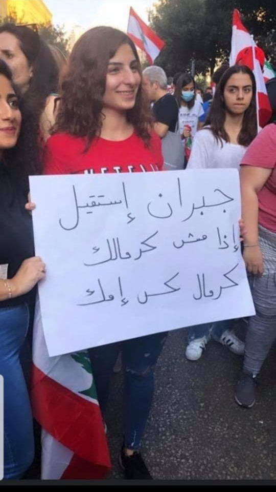 2019 protest in Beirut